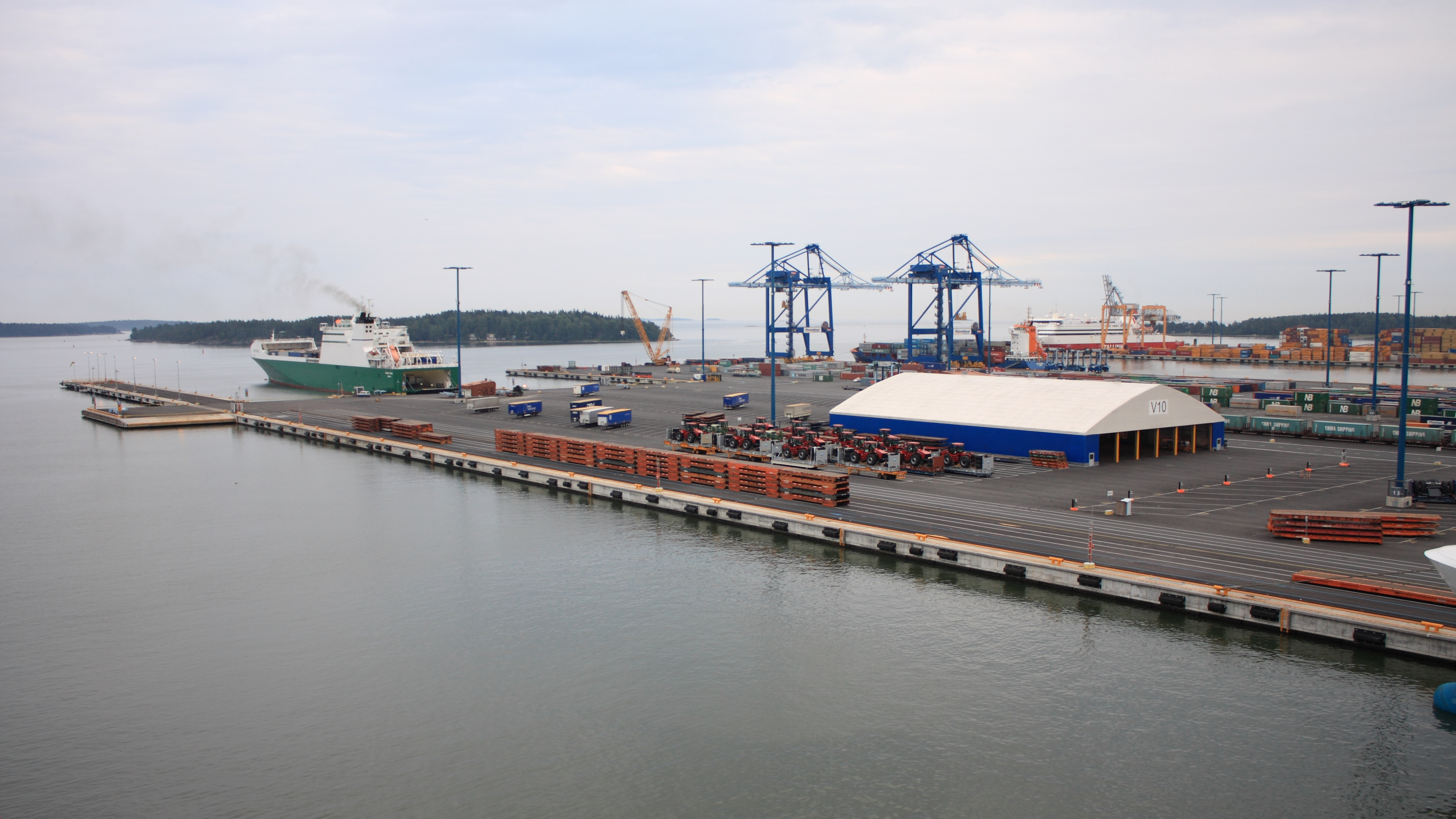 Vuosaari harbour, Helsinki, Finland. The photo was taken from the deck of M/S Finnlady.